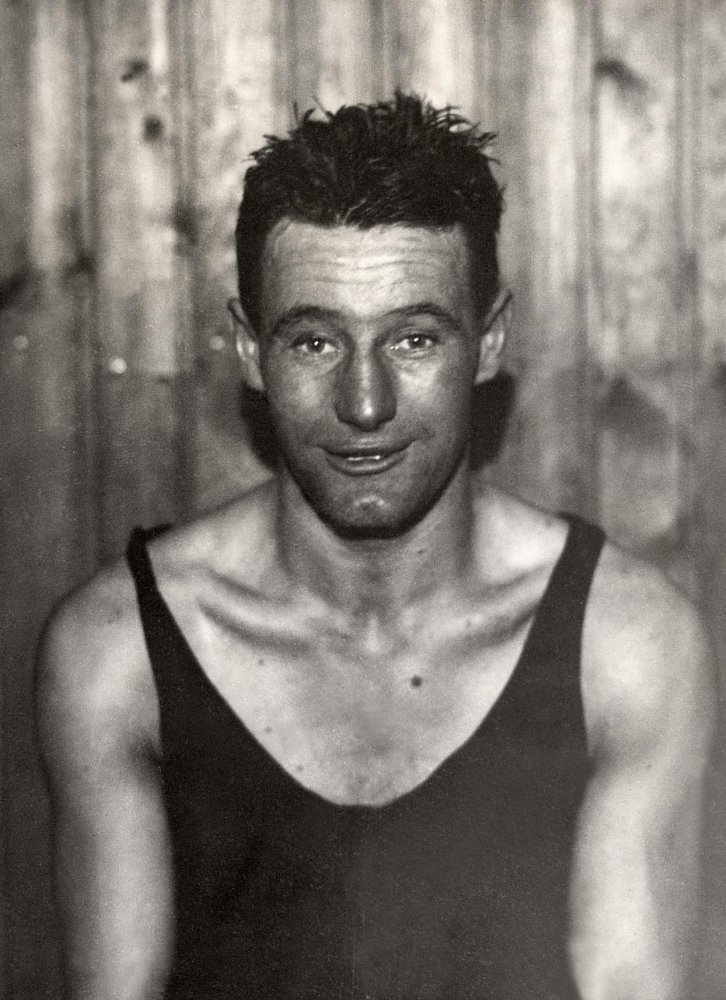 Olympic Games 1928, Amsterdam: Edward "Ted" Morgan, olympic champion boxing welterweight.